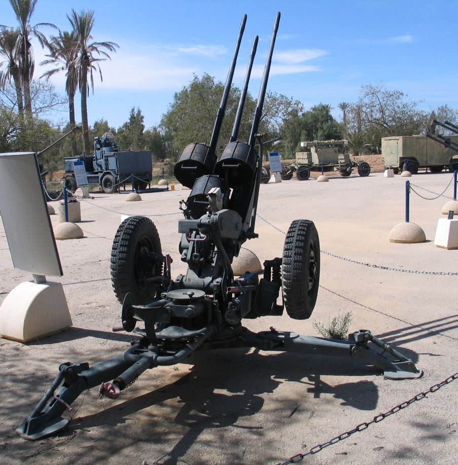 Hispano-Suisa M55 3x20 mm AA gun at Muzeyon Heyl ha-Avir, Hatzerim airbase, Israel. 2006.